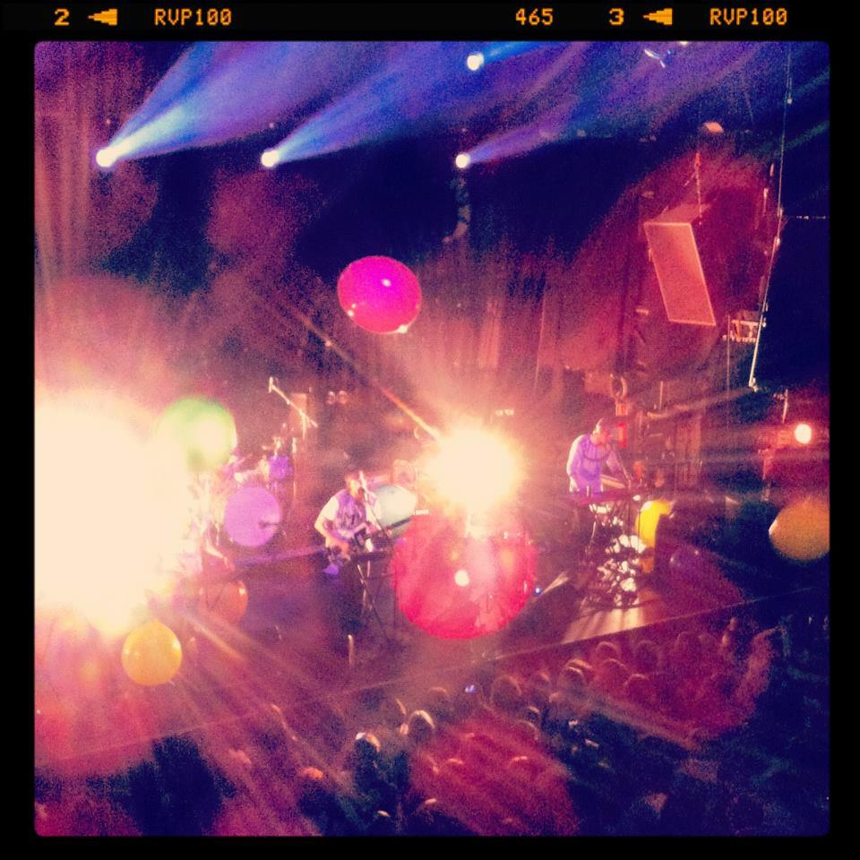 Team Me live at Rockefeller, Oslo, March 2012 Norsk (bokmål): Team Me live på Rockefeller, Oslo, Mars 2012